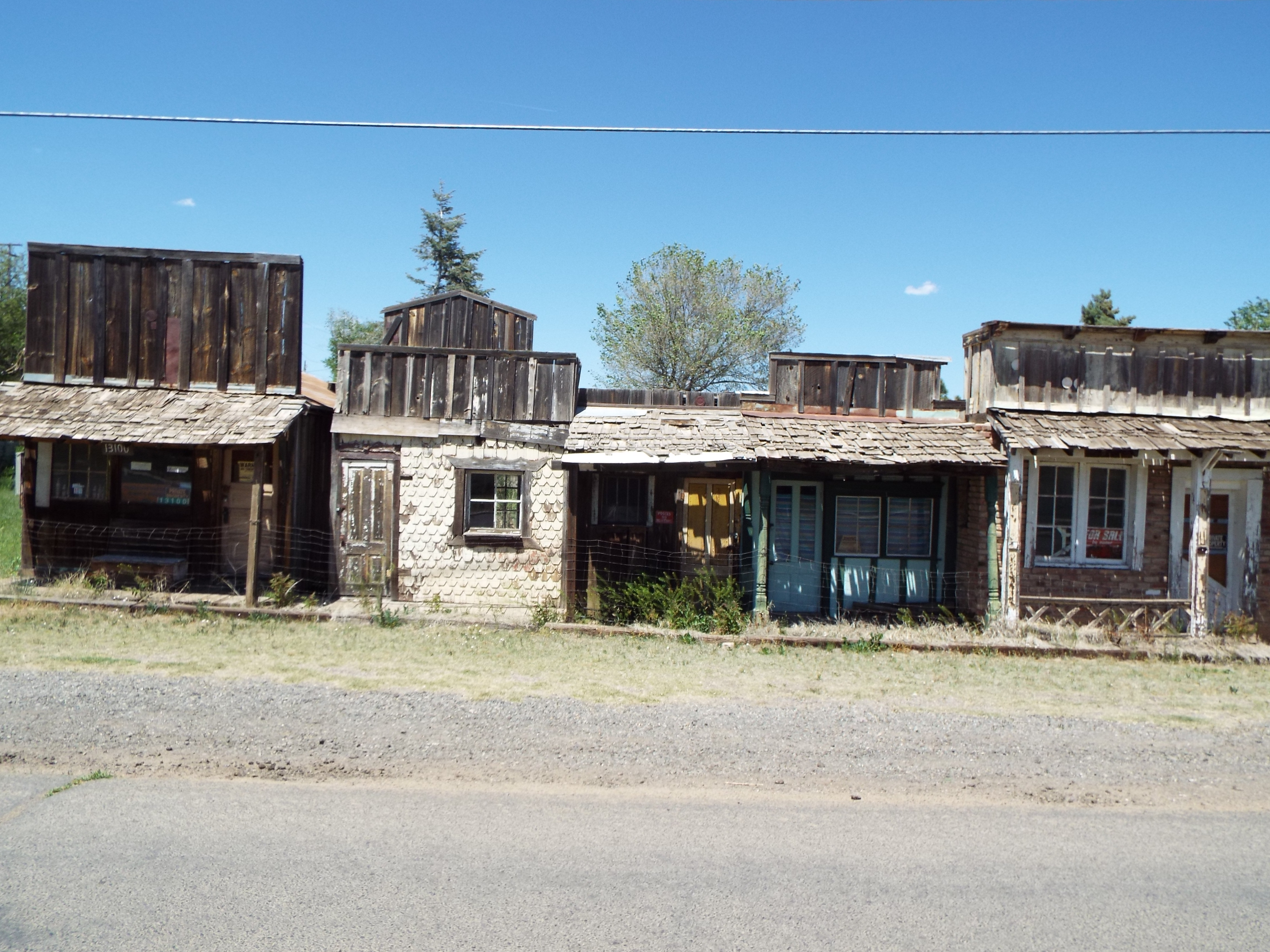 Humbodlt town buildings late 1800s in Dewey-Humbodlt, AZ